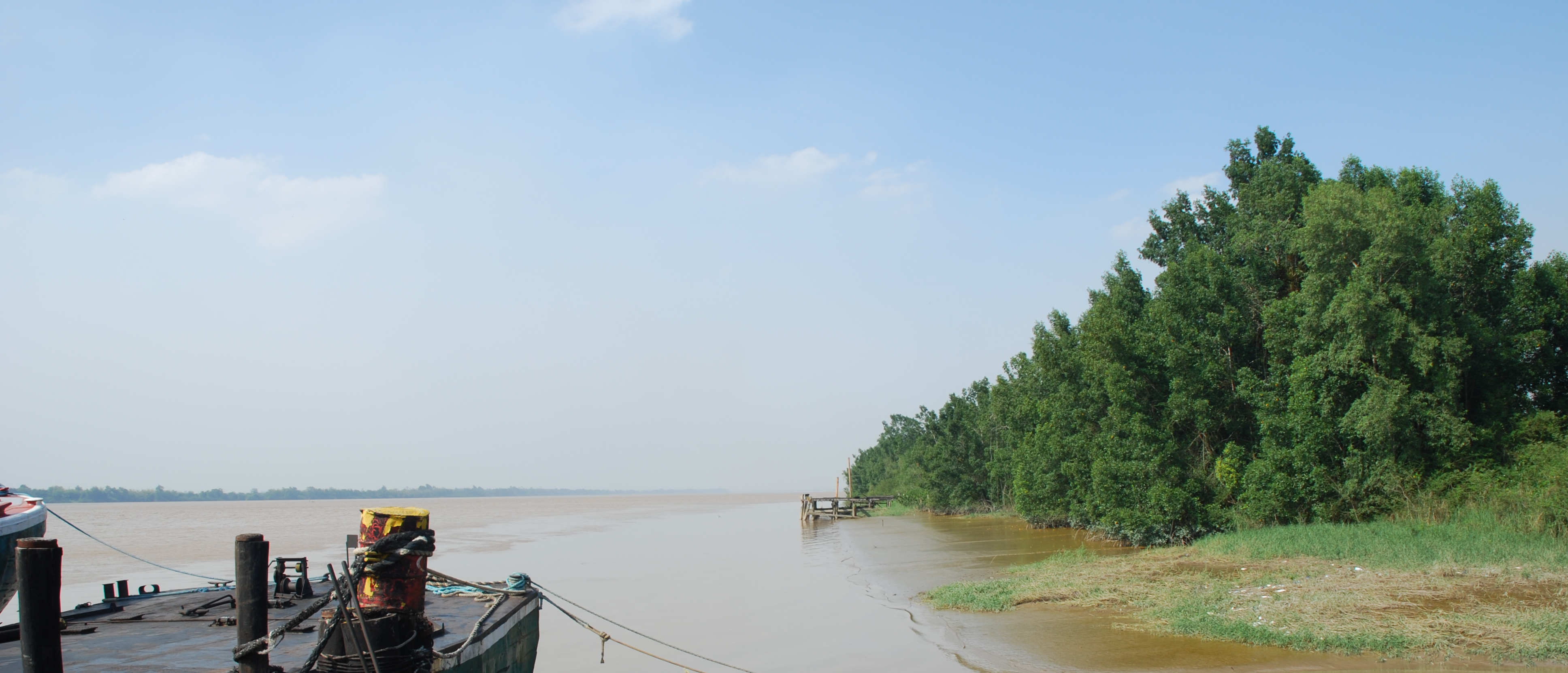 Photo of Demerara river (Guyana)